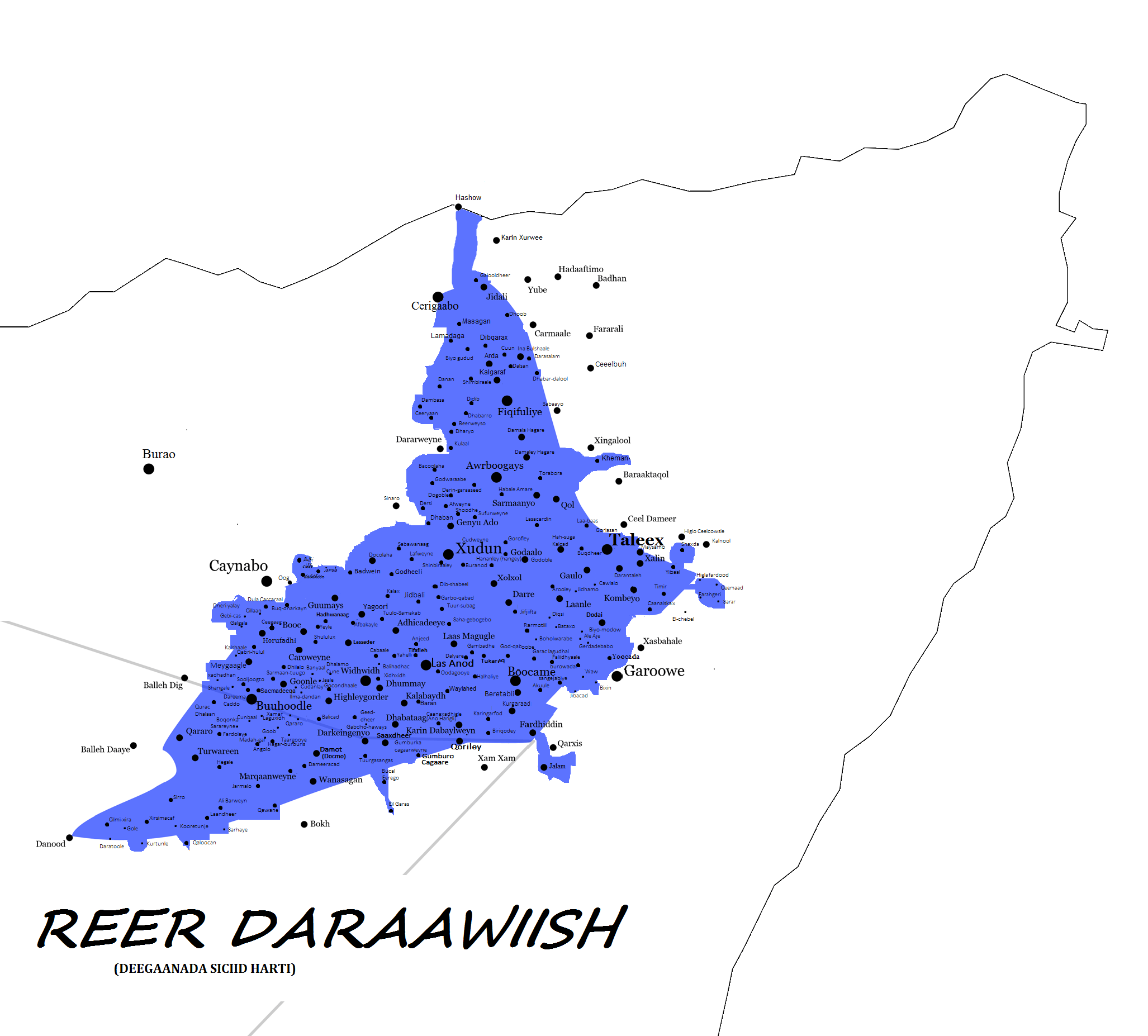 Reer Daraawiish (Dhulbahante)